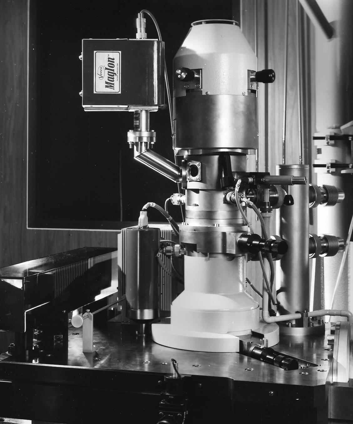 The "Electrocomposeur" vas a rasterscan e-beam lithography machine purposed for maskwriting. Developed by the Thomson-CSF central lab near Paris at the beginning of the 70s, it was installed at Grenoble in the "Sescosem" semiconductor fab in 1976.